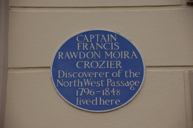 Crozier plaque, Banbridge. See 232446. This is the plaque on Avonmore House - Crozier's birthplace.